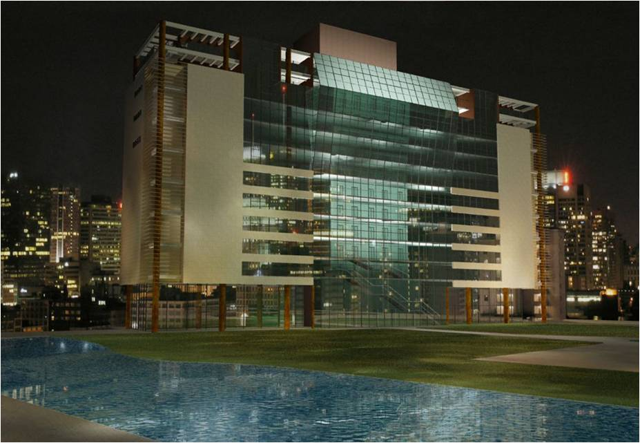 Business School São Paulo (BSP)